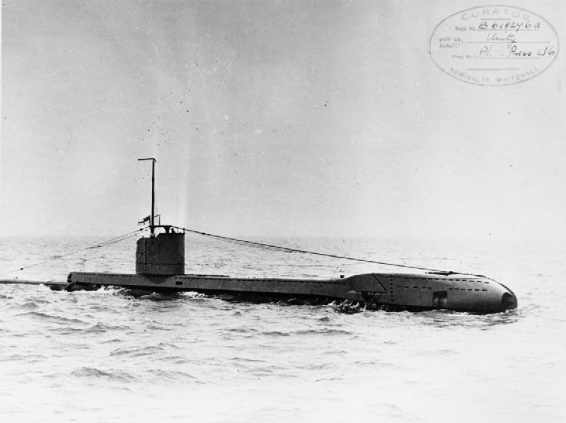 British U class submarine HMSM UNITY underway at sea.